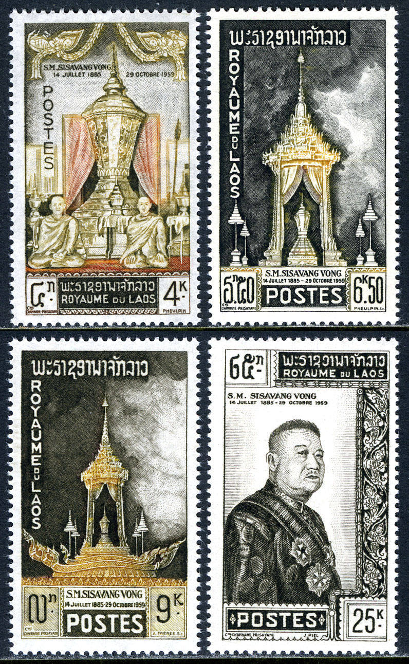 Postage stamps depicting Funeral of King Sisavang Phoulivong